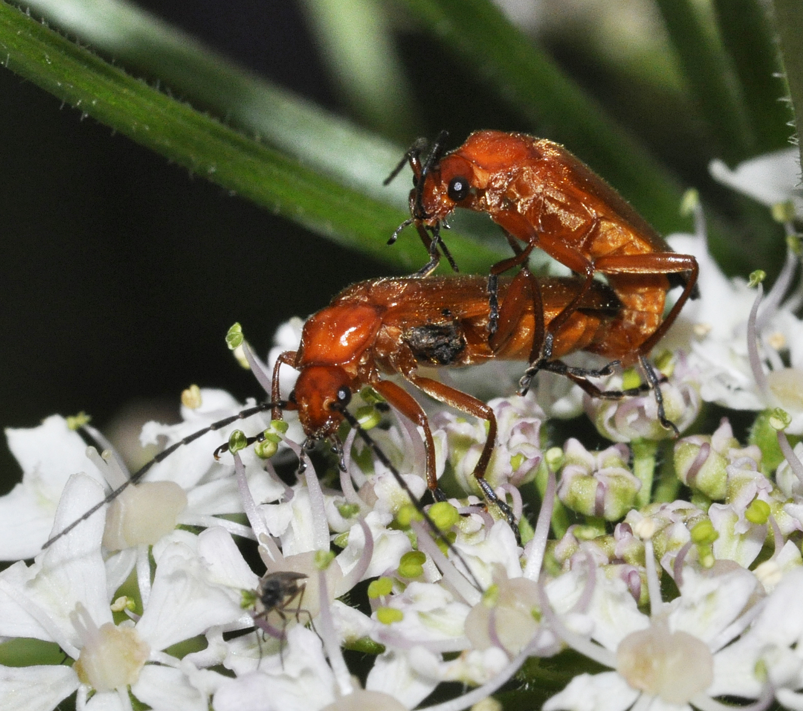 Rhagonycha fulva (Scopoli, 1763). Germany: Bayern, Landkreis Bad Kissingen, Volkers near Bad Brückenau.